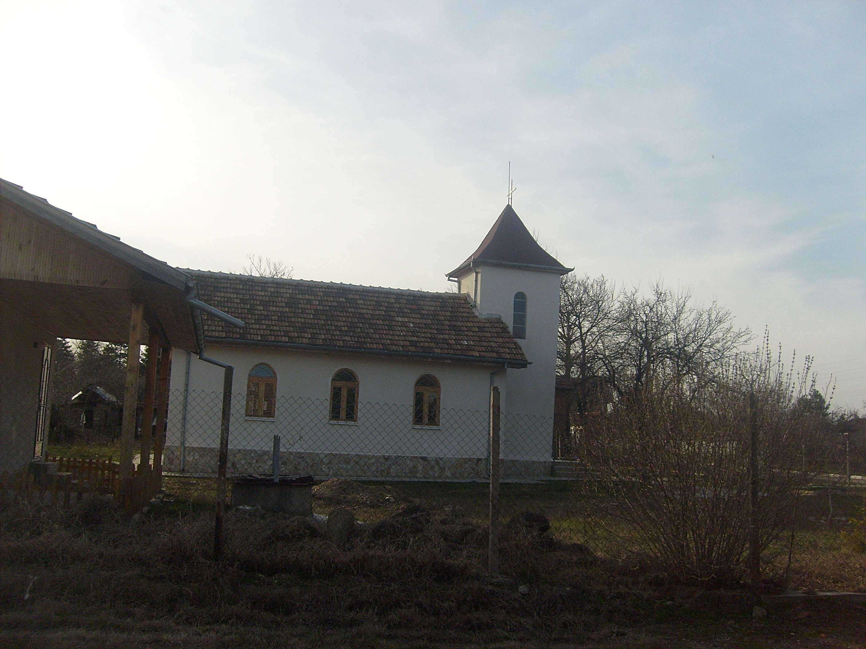 Voyvodovo, Vratsa Province, Bulgaria